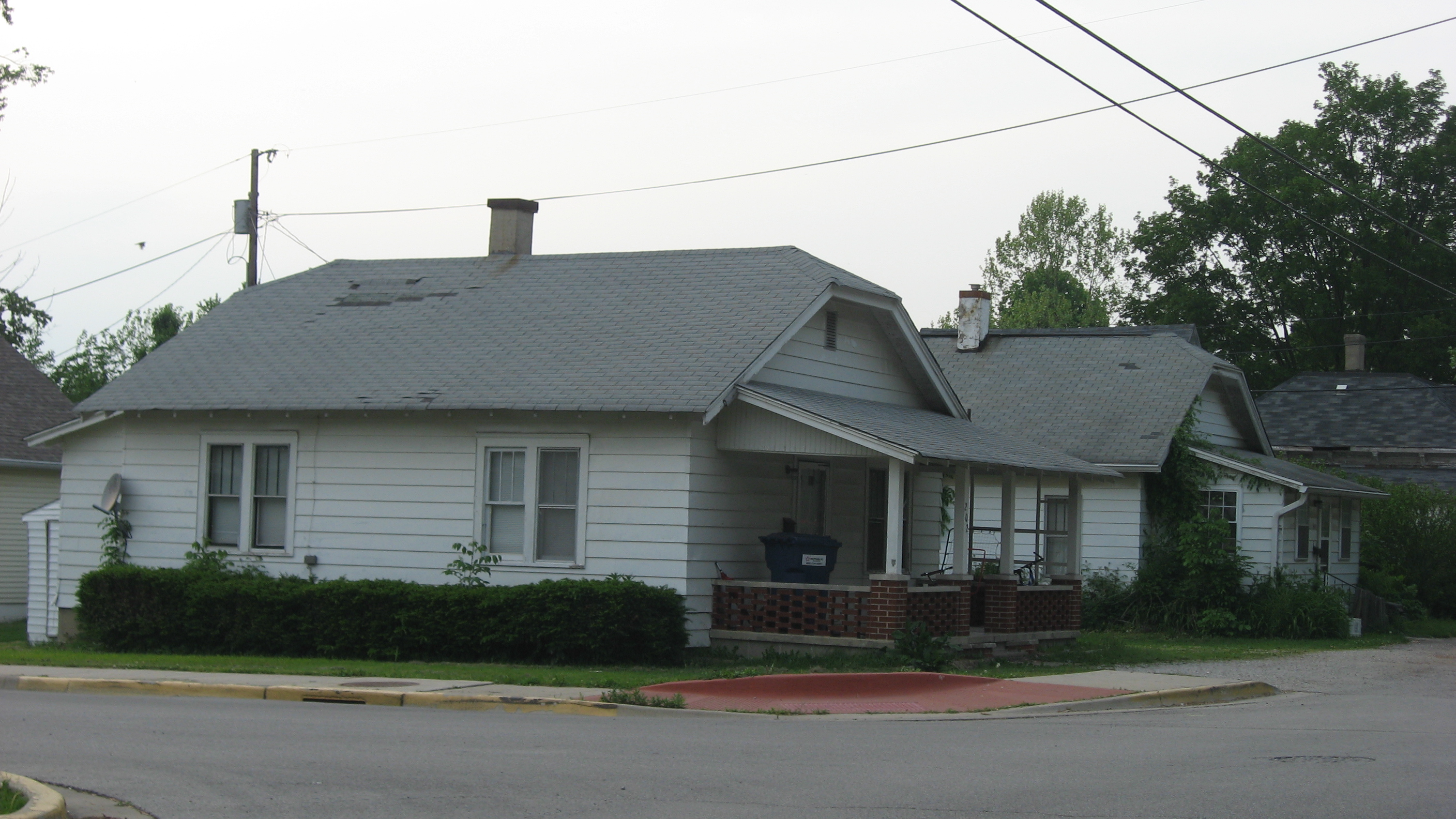 Houses on the western side of the 200 block of N. Madison Street in Greencastle, Indiana, United States. This block is part of the Old Greencastle Historic District, a historic district is listed on the National Register of Historic Places.